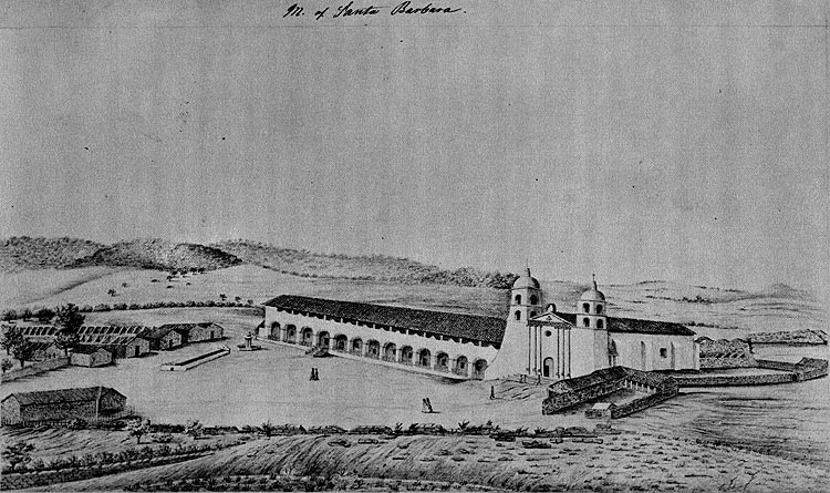 Mission Santa Barbara — view northwest in 1856. Located in Santa Barbara, California.